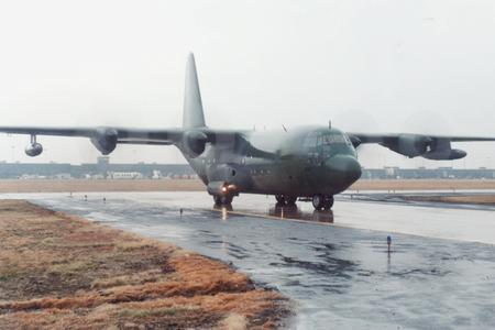 C-130A, "Saigon Lady" in Washington